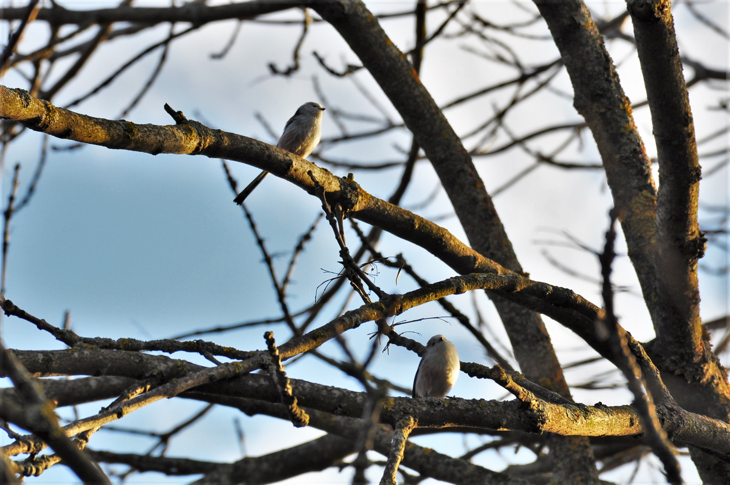 Long-tailed Tit Aegithalos caudatus, intergrade between A. c. caudatus and A. c. europaeus. Codrii Tigheci, Cantemir, Moldova.